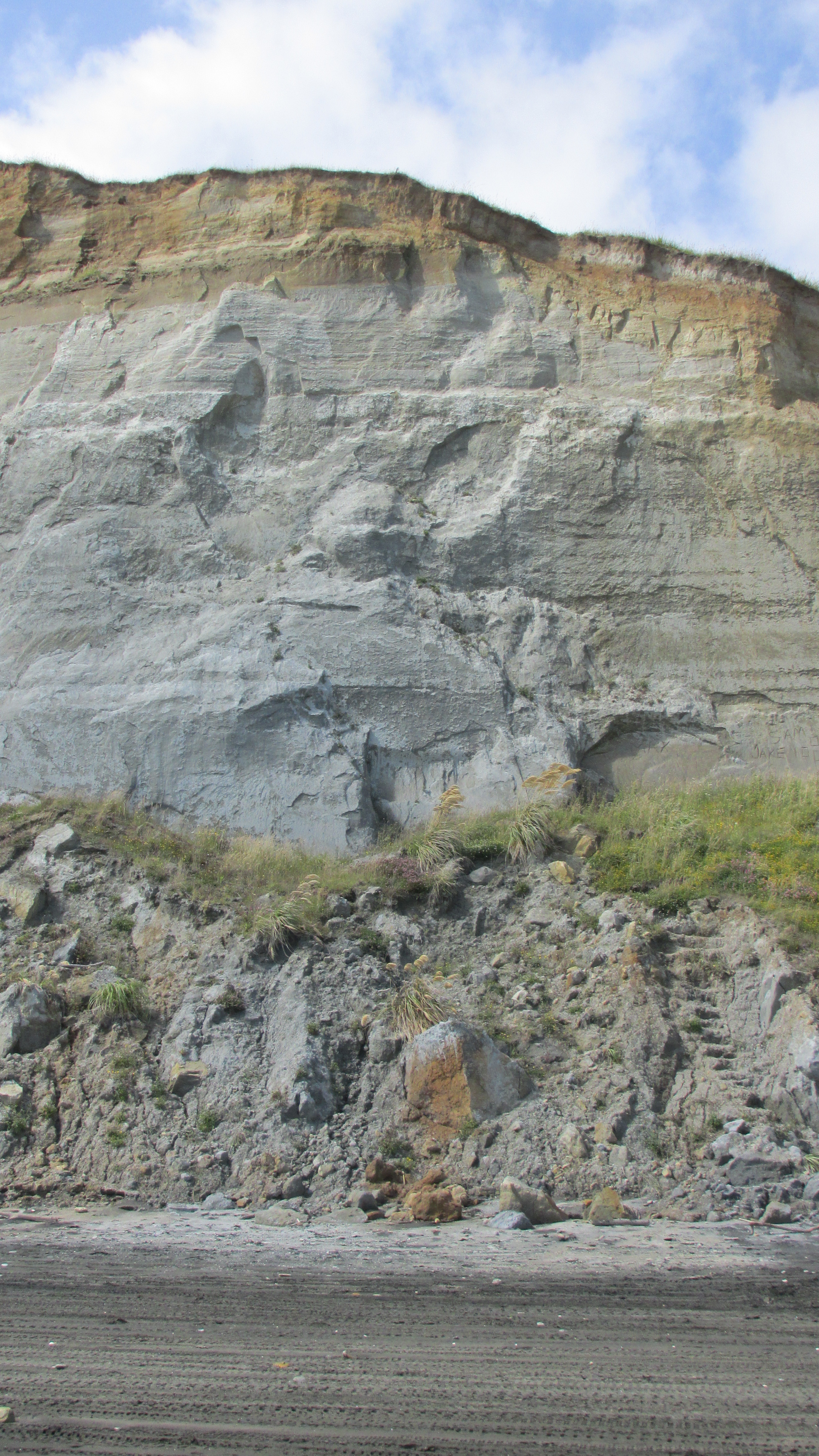 Wanganui series cliff at Kai Iwi beach, New Zealand